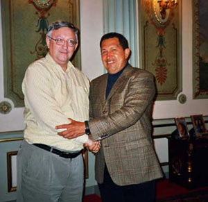 alan woods con hugo chavez